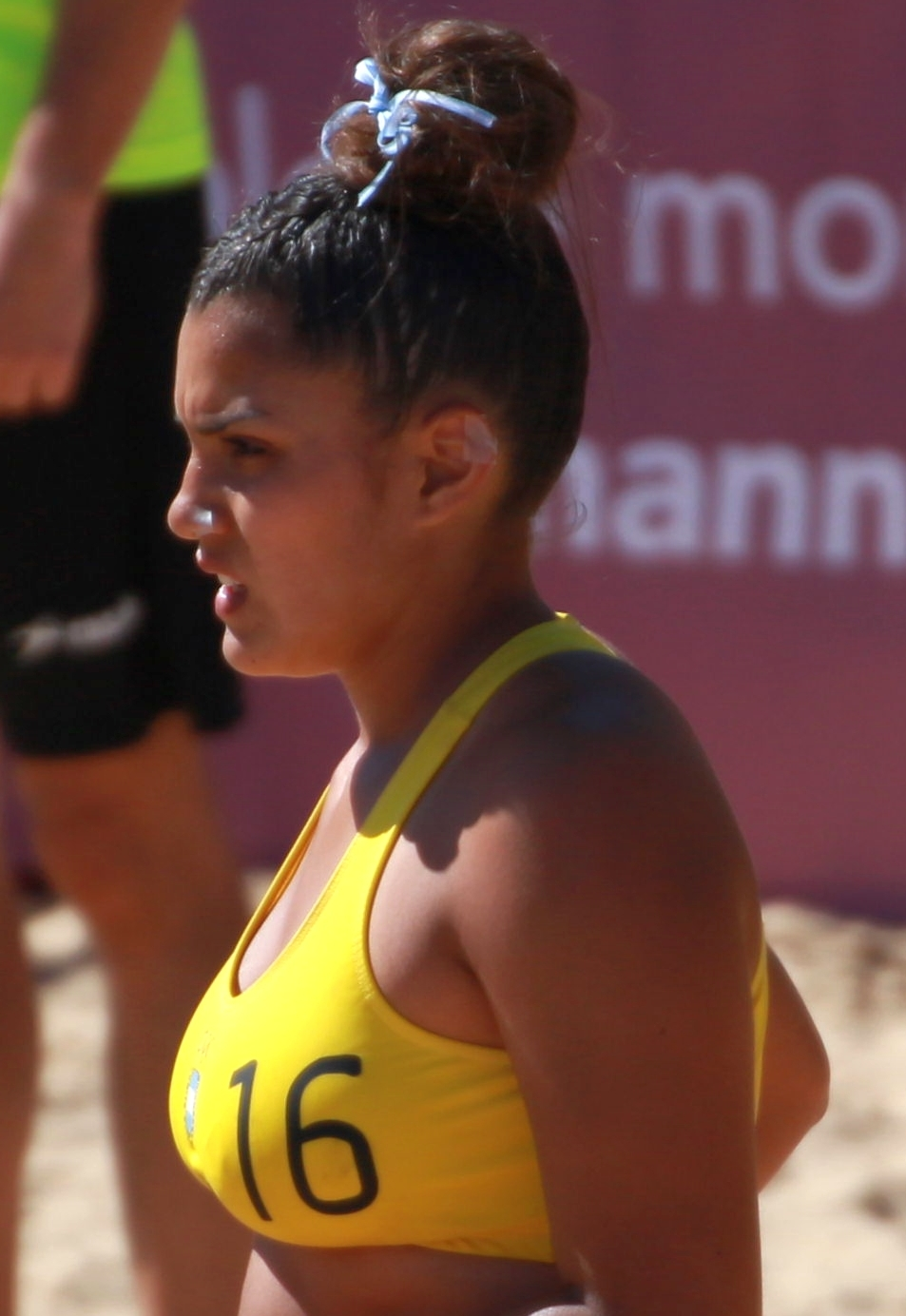 Beach handball at the 2018 Summer Youth Olympics at 10 October 2018 – Girls Preliminary Round Group B – Netherlands-Argentina 2:0